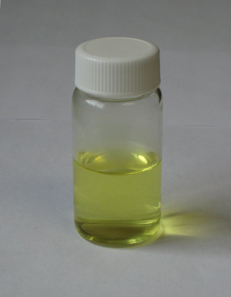 Solution of chlorine dioxide in water